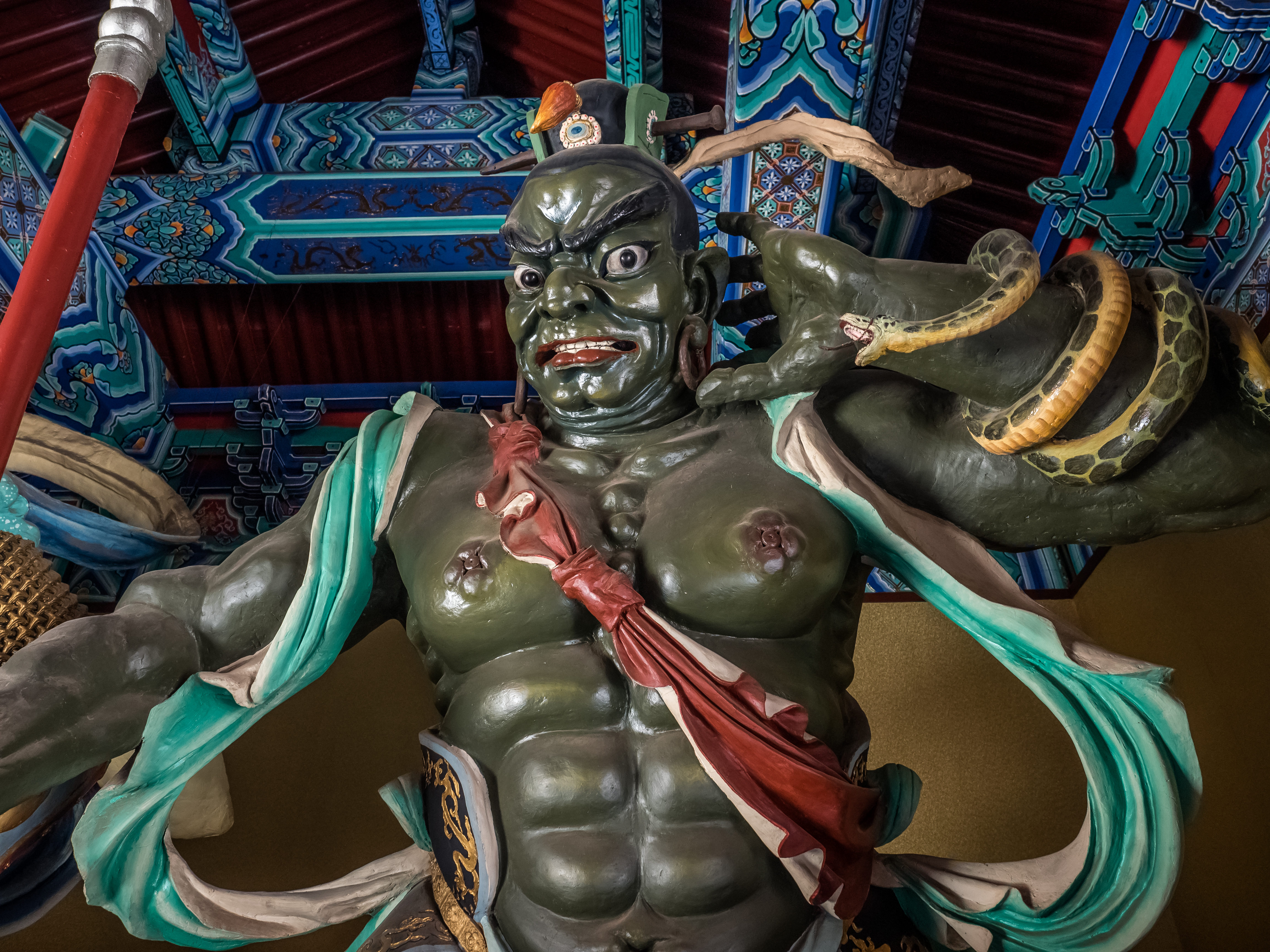 Shunfeng'er, a doorgod and guardian of Mazu, at Tianjin's Tianhou Palace.